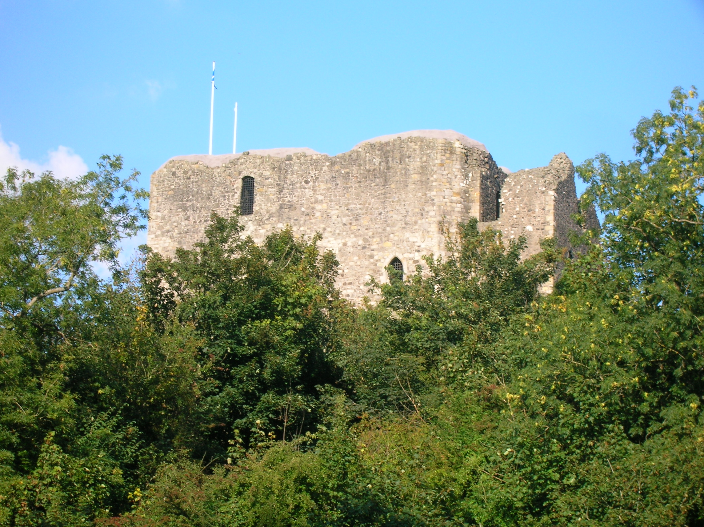 Dundonald Castle from the Old Bank Wood, Dundonald, South Ayrshire, Scotland.